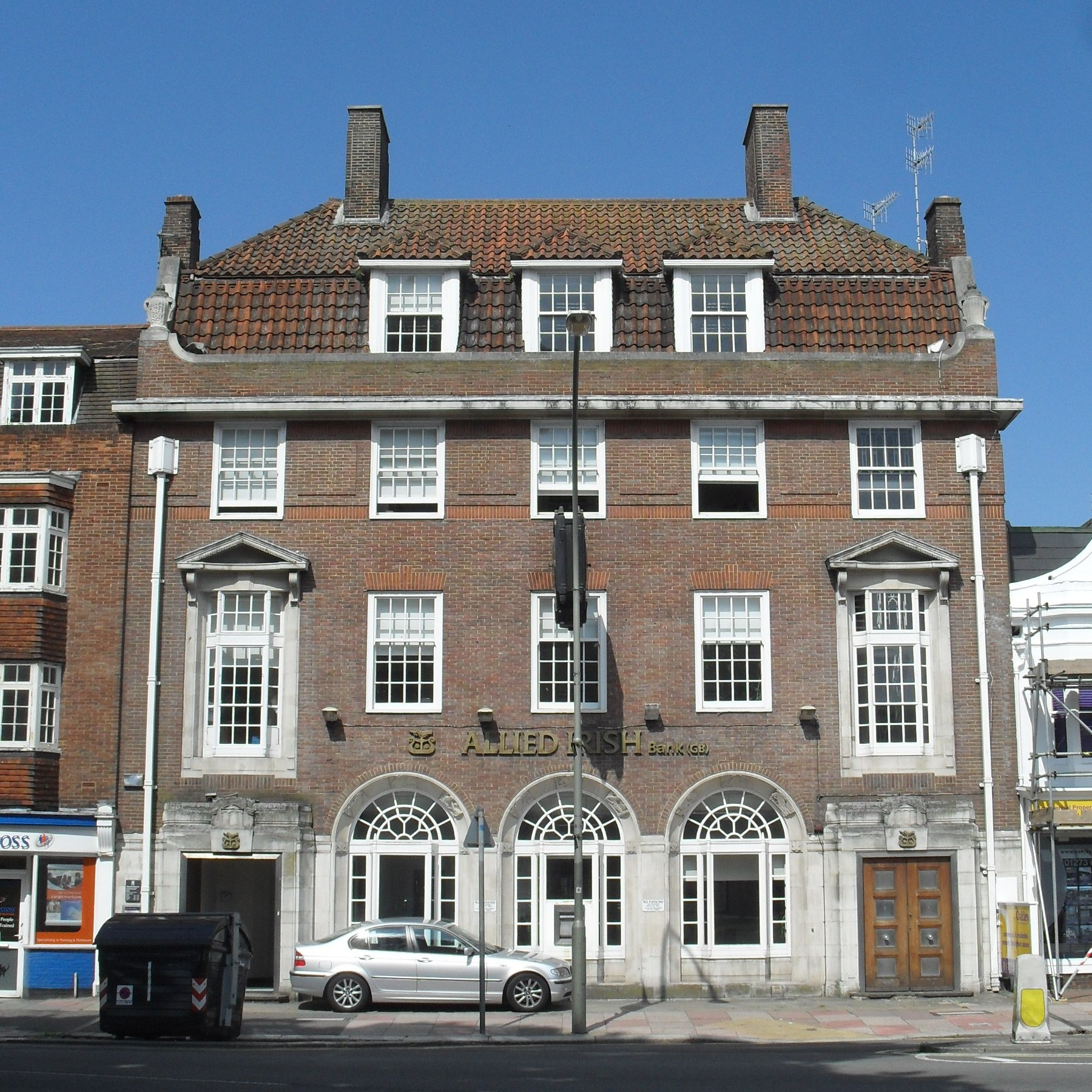 20–22 Marlborough Place, Brighton, City of Brighton and Hove, England. Built in 1933 for the Citizens Permanent Building Society. Now the Allied Irish Bank. Listed at Grade II by English Heritage (NHLE Code 1381771)